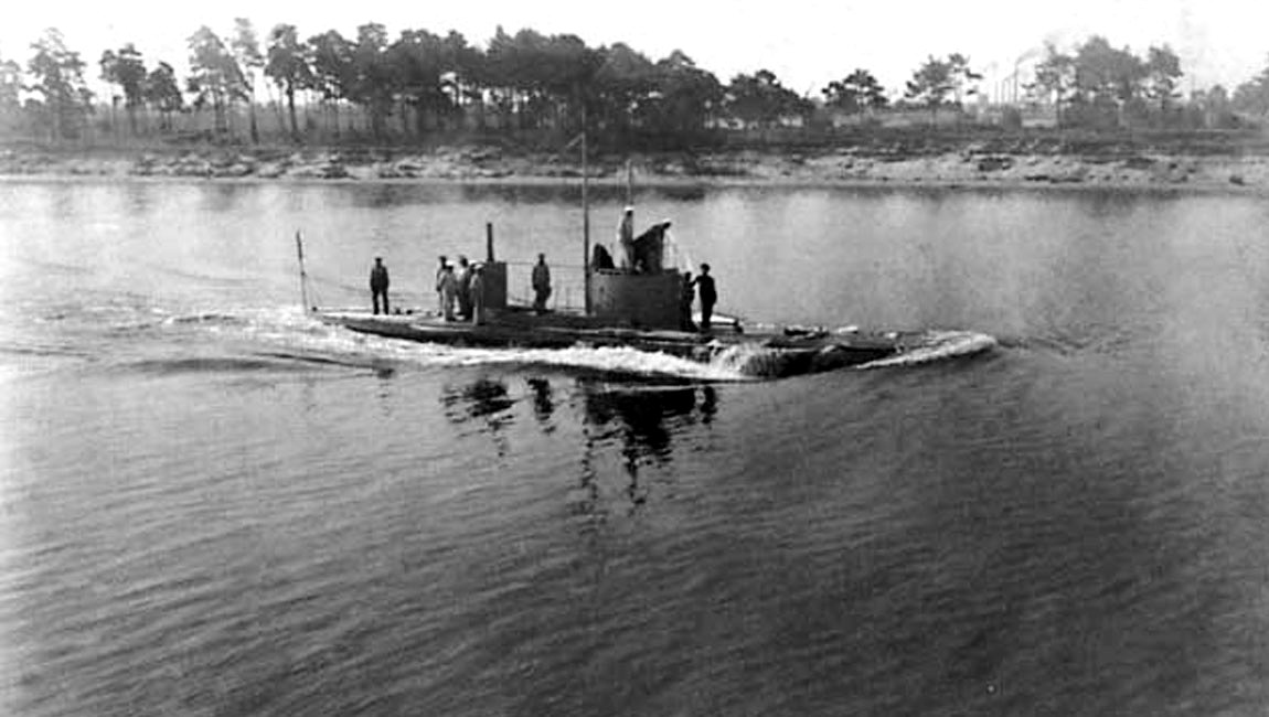 The Imperial Russian submarine «Sig».